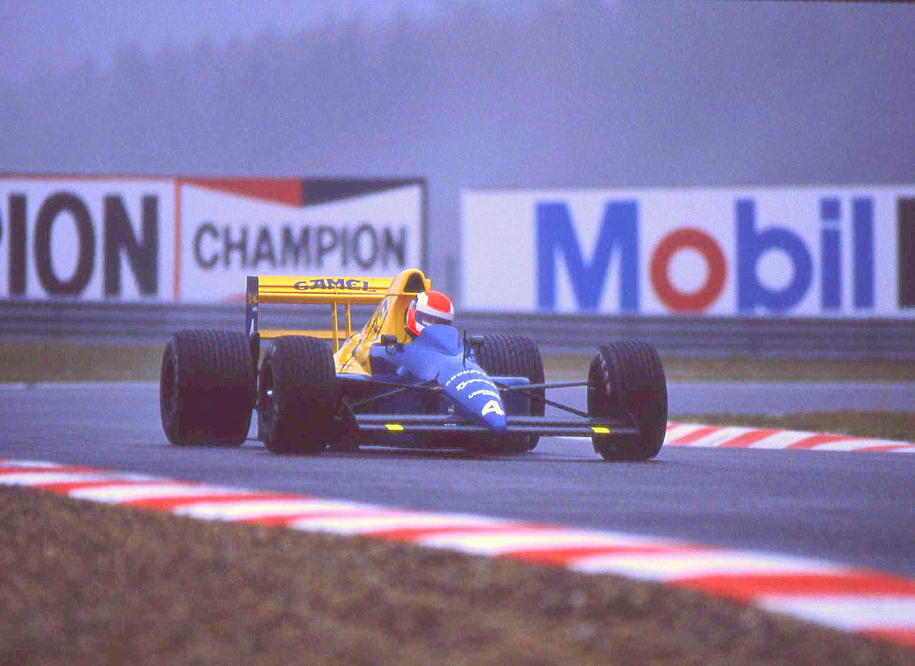 Johnny Herbert -Tyrrell-Ford. Scan diapo argentique.